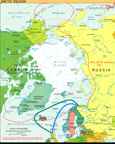 A diagram of the Arctic convoys of World War II